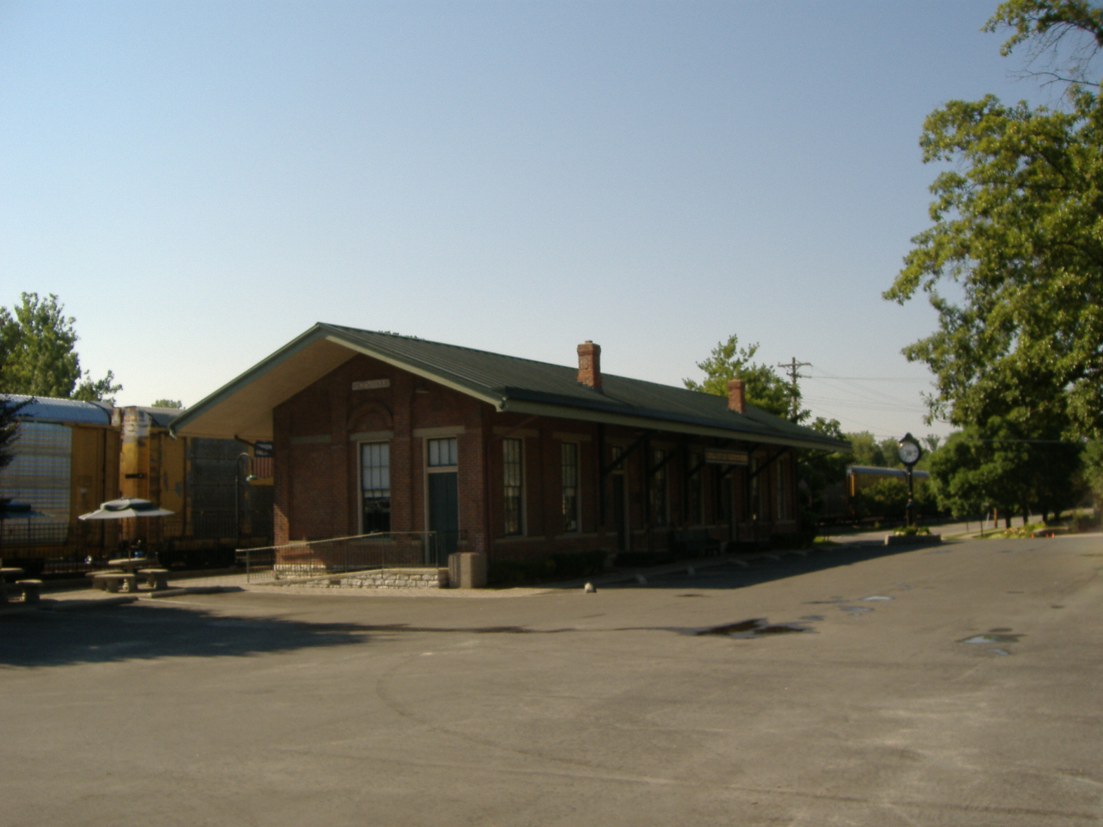 Train station in Glendale, Ohio, United States.